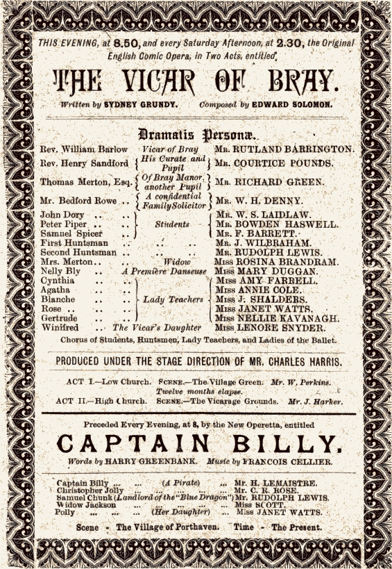 Scan of Savoy Theatre programme from 1892 of double bill of Captain Billy and The Vicar of Bray. Public domain.